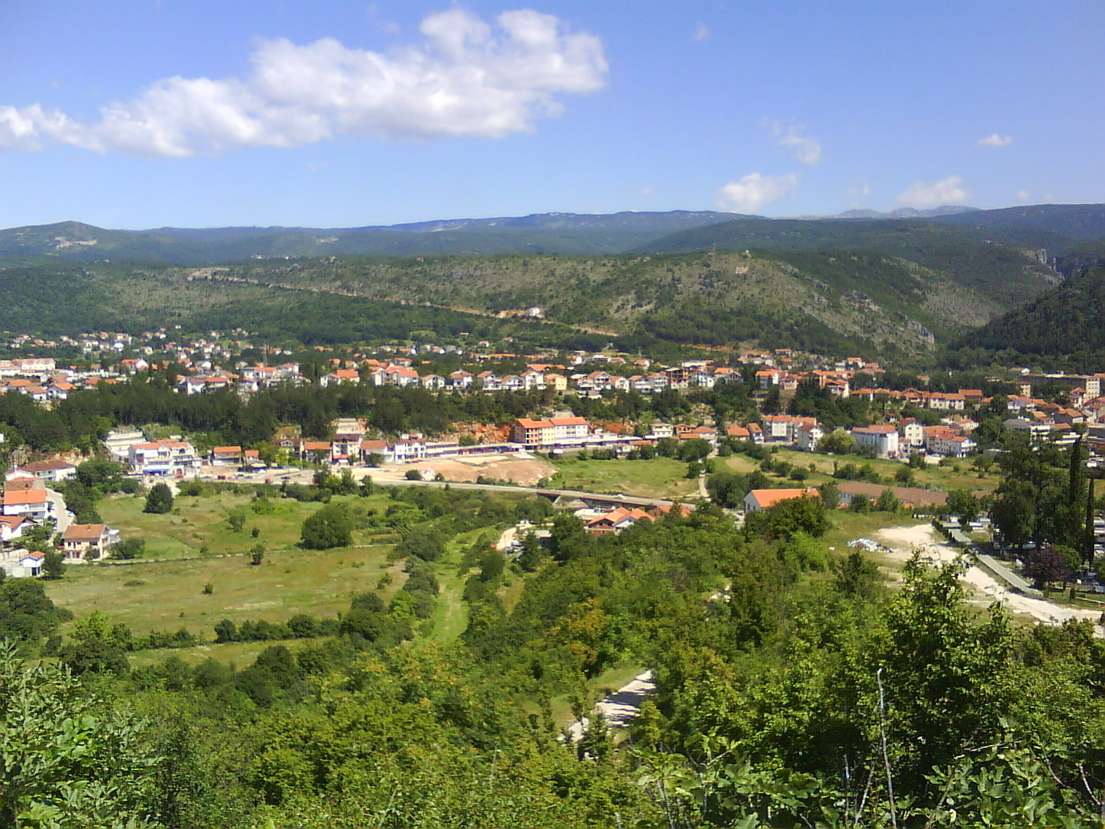 panorama photo of Široki Brijeg